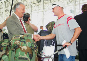 United States Senator Paul Sarbanes congratulates US troops as they depart the new state-of-the-art USO International Gateway Lounge at BWI airport.